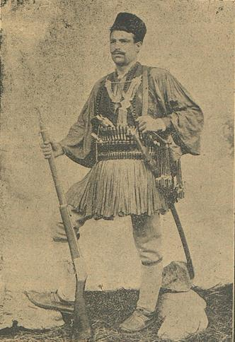 Portrait of IMARO member Lazar Delev from Orehovica